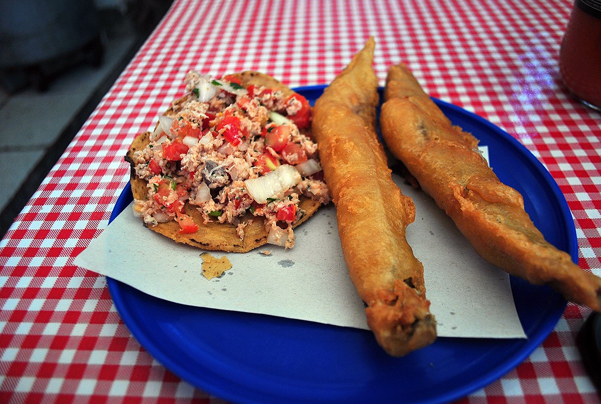 Toast corn with ceviche (fish, tomato, onion, spices) and battered fish fillets in flour. Prepared in Mexico City.